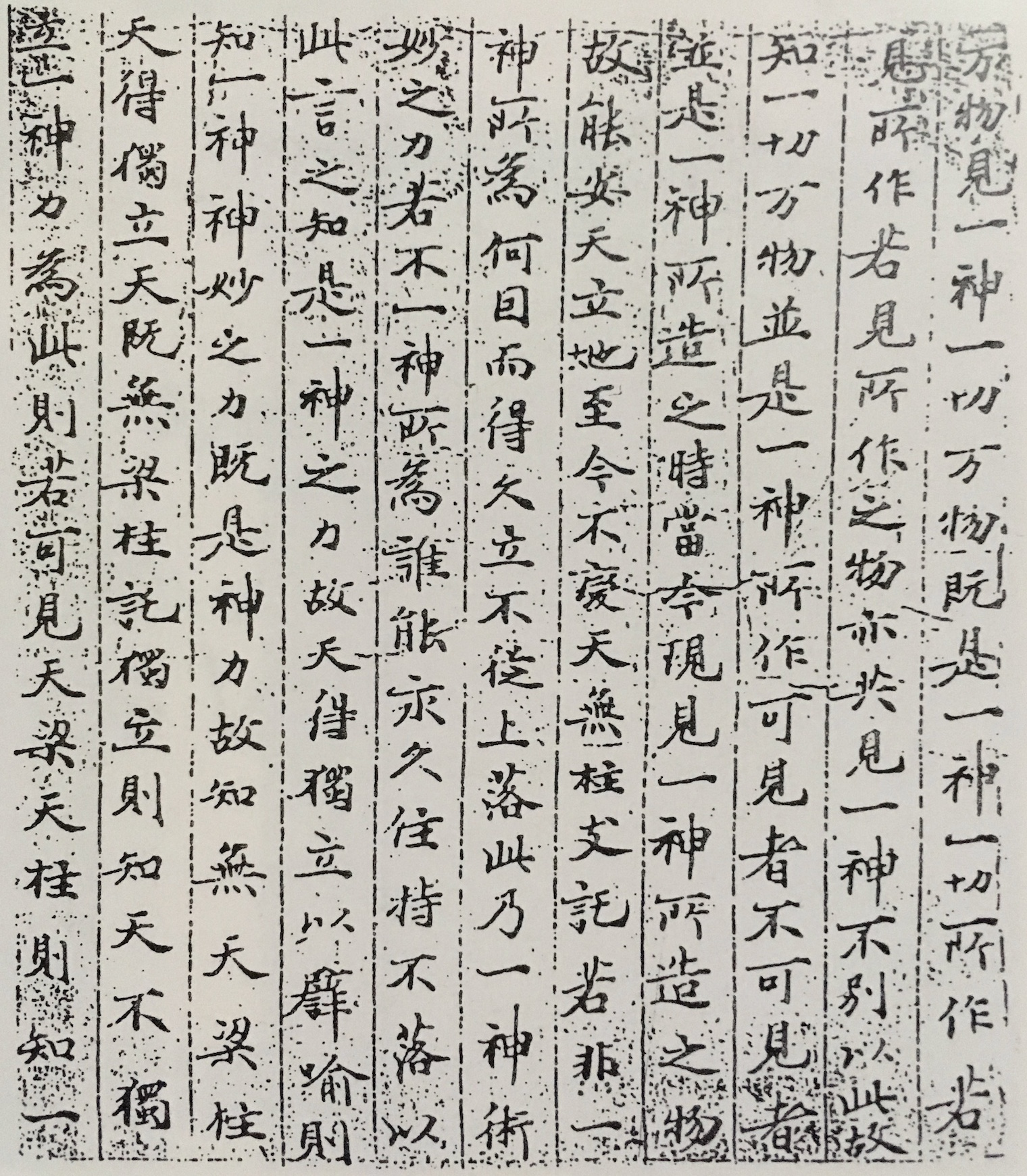 The Sutra on the Oneness of Heaven, the first text in the Treatise on the One God, once known as the Tomioka manuscript; now held in Osaka, Japan, by Kyōu Shooku library, Tonkō-Hikyū Collection, manuscript no. 460.